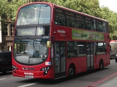 Wright Eclipse Gemini 2 bodied Volvo B9TL on London Buses route 18 in 2014